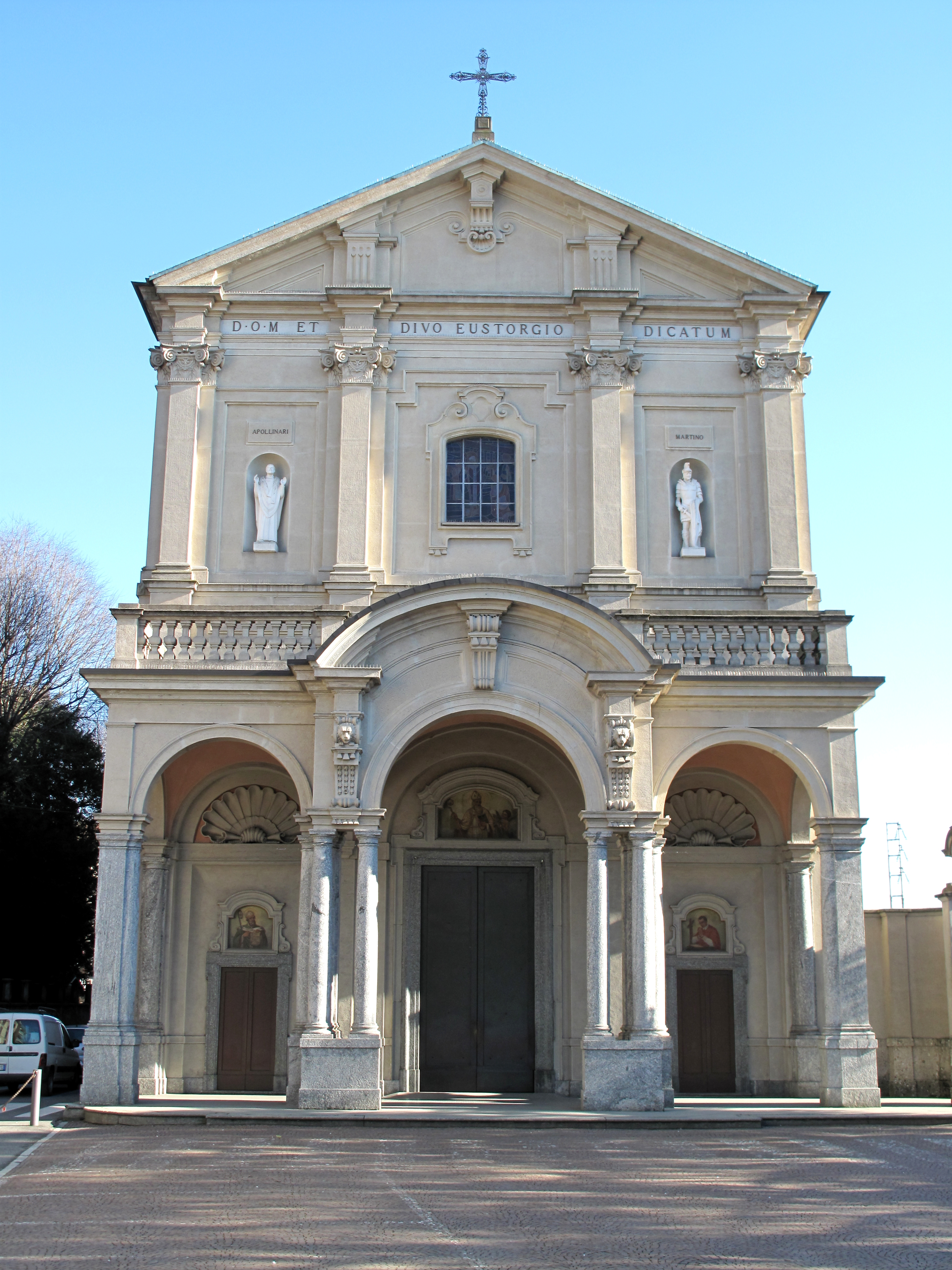 Church of San Eustorgio in Arcore (MI)